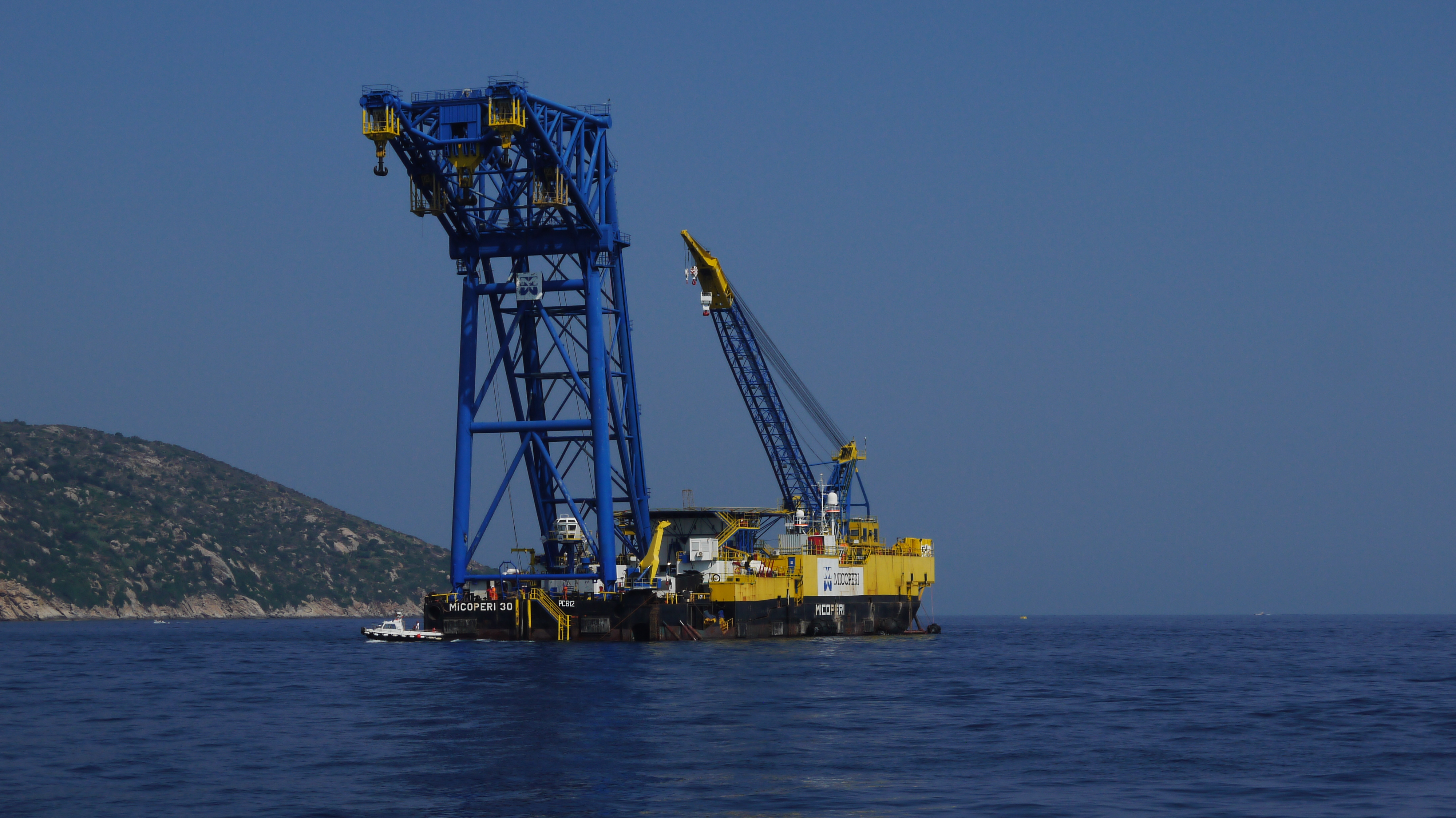 The crane vessel Micoperi 30 with its 1270 ton main crane near Isola del Giglio